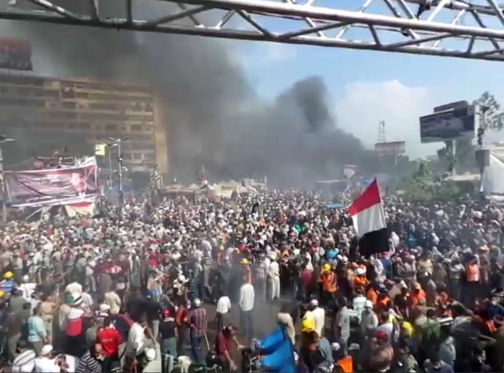 Rabaa al-Adawiya during the dispersal of Morsi supporter sit-ins - 14 August